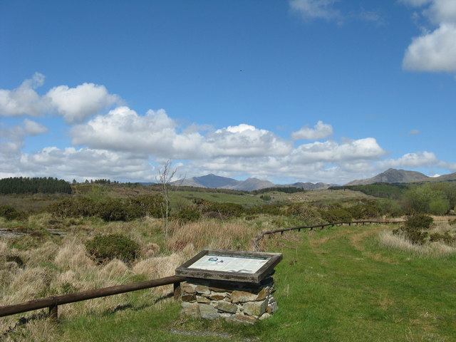 Powder Works This sign is a marker at the Powder Works Nature Reserve Penrhyndeudraeth. Gwaith Powdwr was an explosive works from 1865 to 1995. It's now a North Wales Wildlife Reserve.In the picture Snowdon can be seen middle distance.